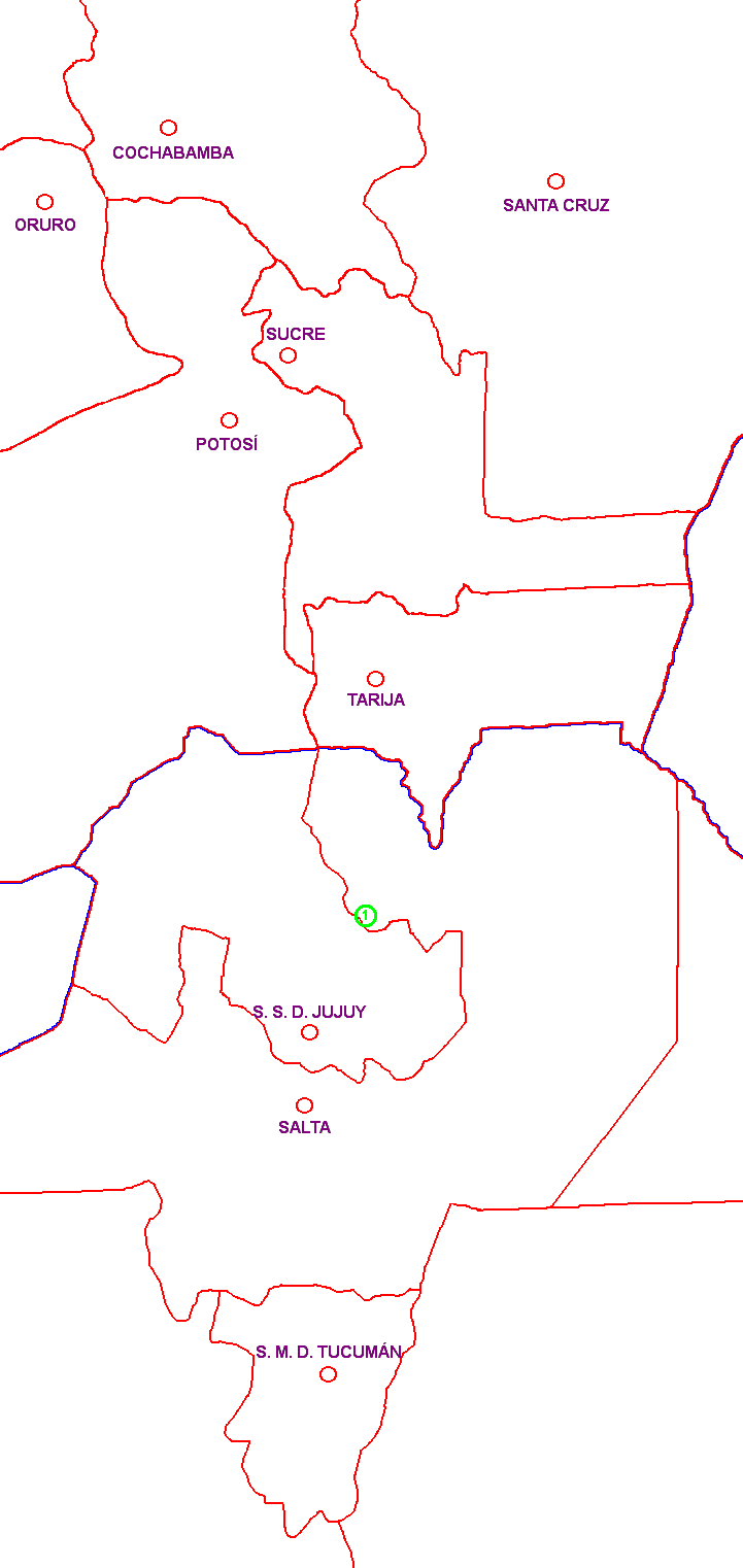 Distribution of Rebutia mudanensis